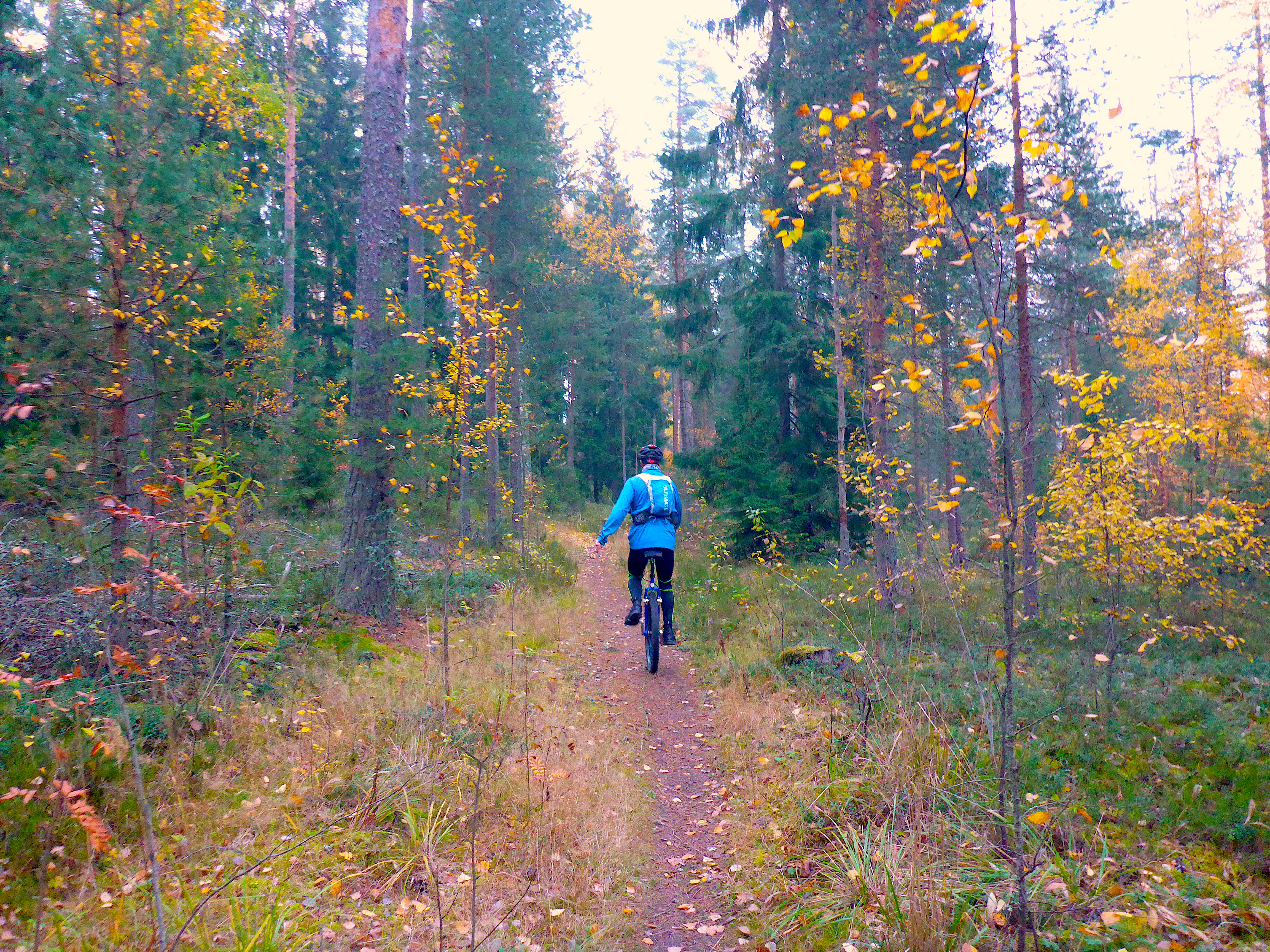 A mountain unicyclist in Finland in autumn 2018